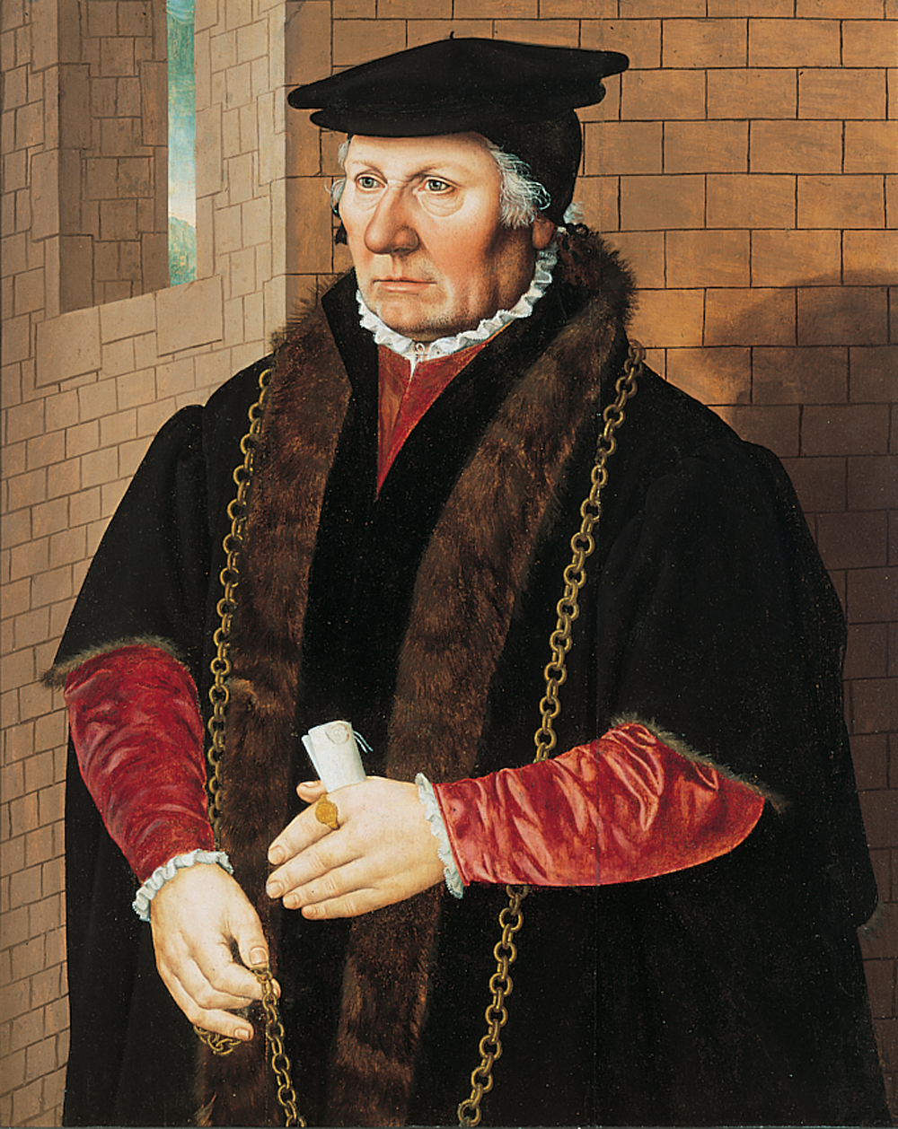 Portrait of Sir William Hewett (d. 1564).